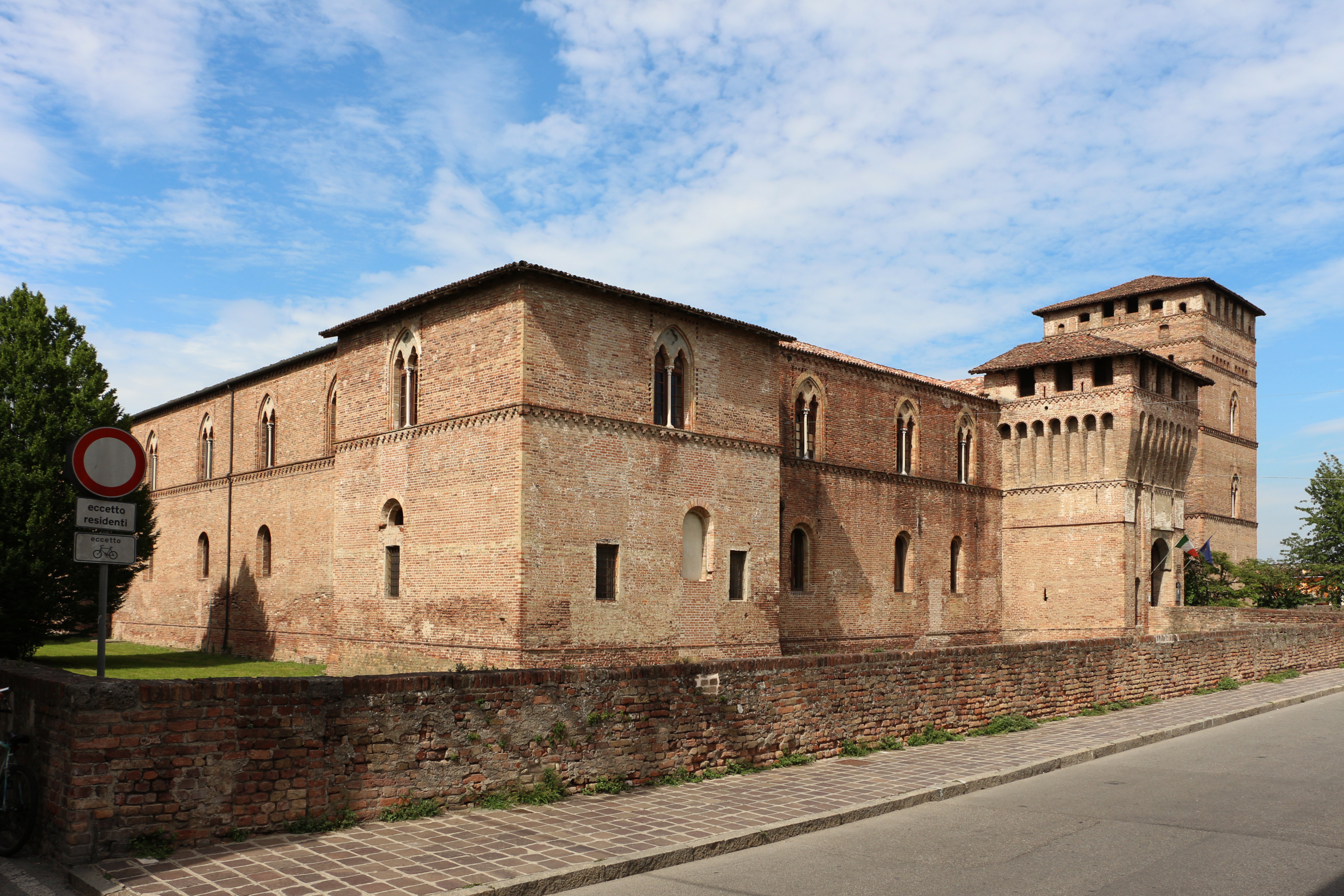 Pandino